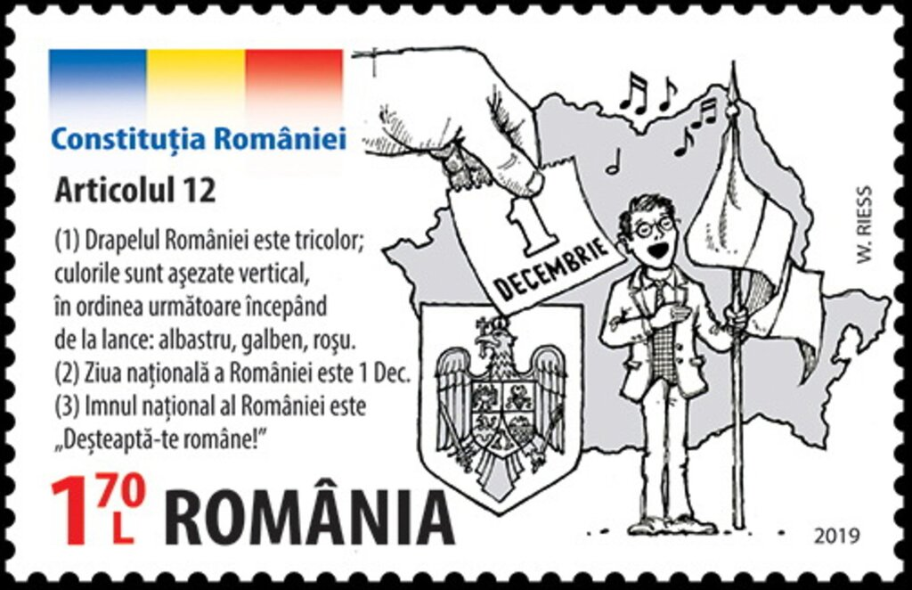 The-Constitution-of-Romania - National-Symbols